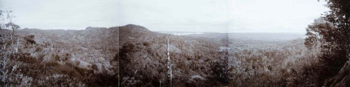 View over the hills near the Badui kampung Kaduketug